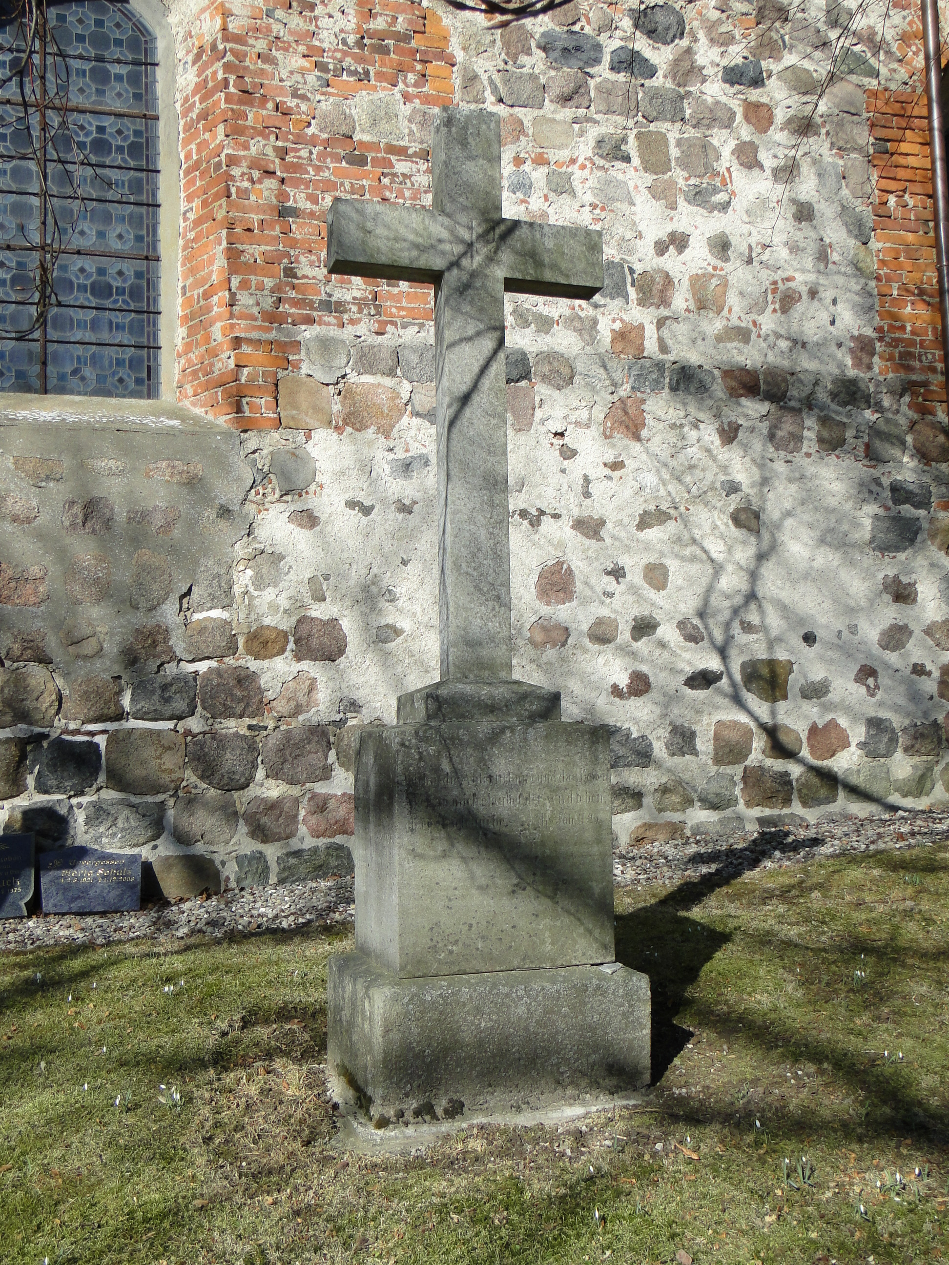 Gravecross at church in Leppin, district Mecklenburg-Strelitz, Mecklenburg-Vorpommern, Germany